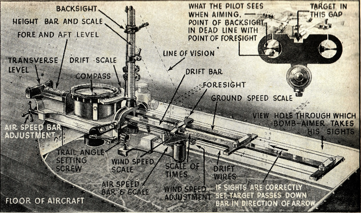 Labeled diagram of an unknown version of the Course Setting Bomb Sight, also known as a Wimperis sight. The large airspeed dial at the rear of the device suggests this was a pre-war model, as the Mk. VII and Mk. IX versions used in most combat aircraft during the war moved the airspeed dial to the right side of the sight. It does feature a trail setting on the right, which means it is a Mk. II or later. But it is lacking the large levelling screw on the left side of the sight, part of the Mk. II. In this example the levelling system has been replaced by the flexible levelling mounting (lightly coloured in this image). This combination of features suggest it is likely a Mk. V or VI. The image shows the bombsight mounted in the bottom of an aircraft, which strongly suggests this is a Fairey Battle, which had a roughly teardrop-shaped window in the floor of the aircraft under the wing area.